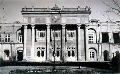 Old Parliament Building, Tehran